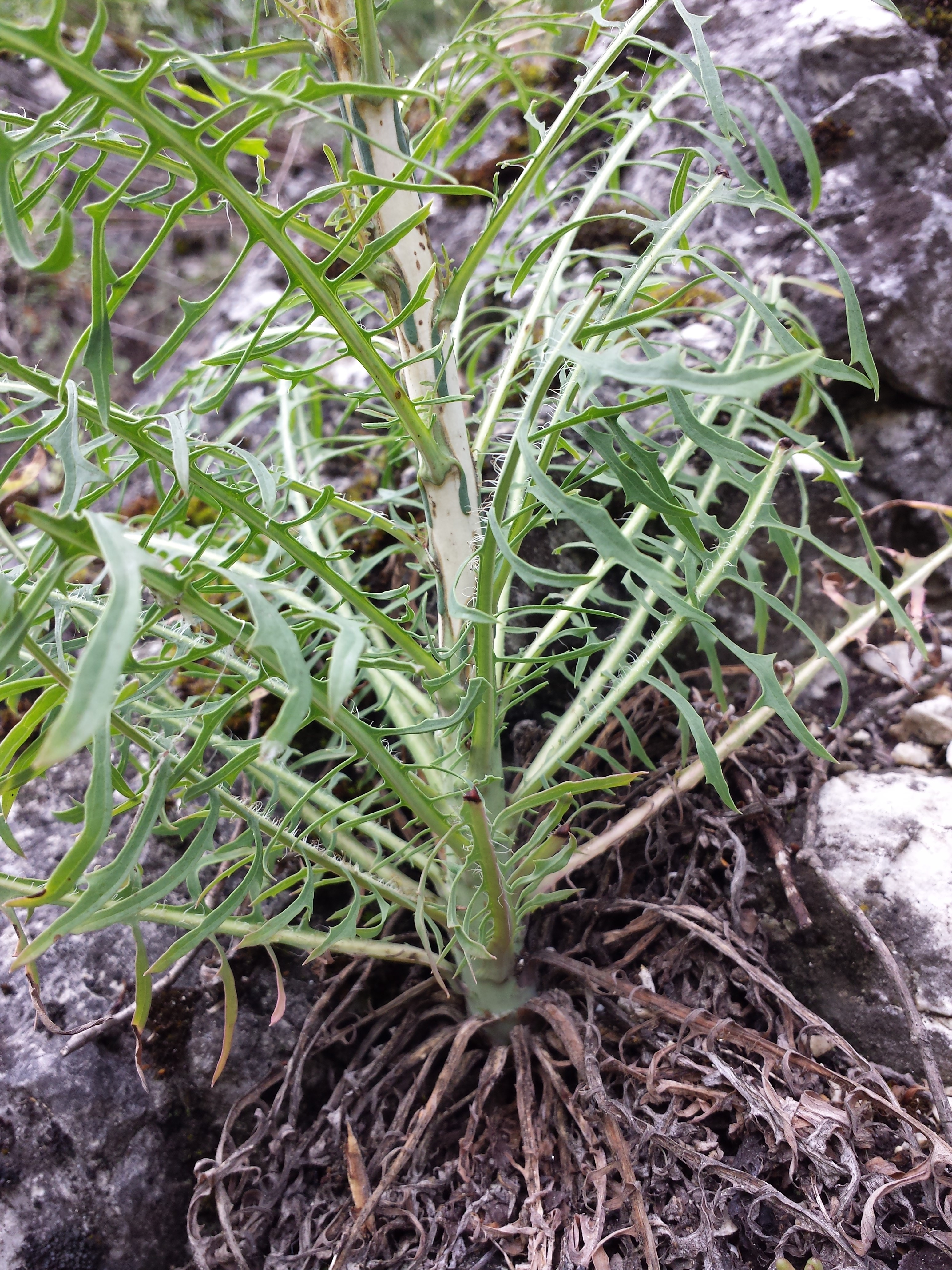 Stipe with leaves Taxon: Lactuca viminea (sensu Fischer et al. EfÖLS 2008 ISBN 978-3-85474-187-9; det. W. Adler 2014-05-30) Location: Staatzer Klippe, district Mistelbach, Lower Austria - ca. 300 m a.s.l. Habitat: rock steppe (limestone) This media shows the natural monument in Lower Austria with the ID MI-052.